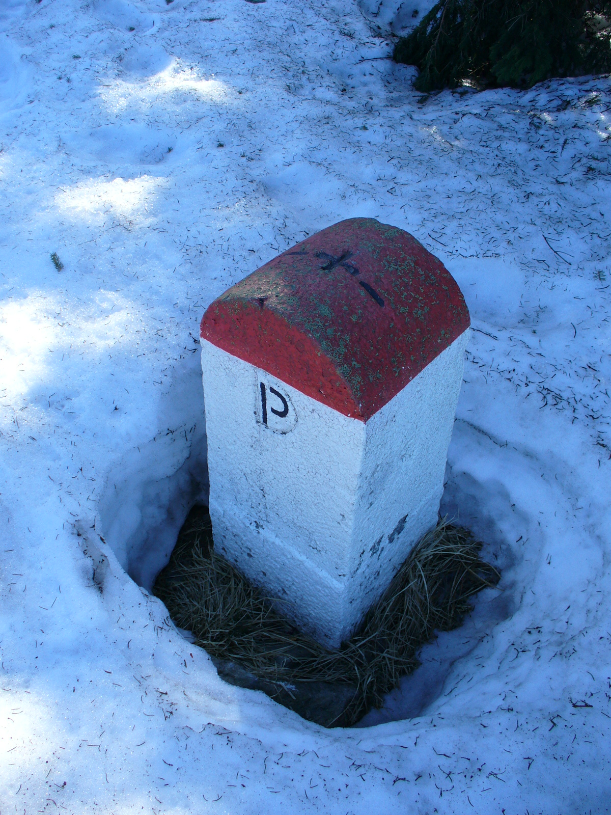 Znak graniczny polsko-czeski. Widoczna literka D (Deustchland), na której namalowano symbol Polski - P [EN: a border post on the Polish-Czech border. The visible letter "D" (standing for Deutschland - Germany) has been over-painted with the "P" (for Poland)]